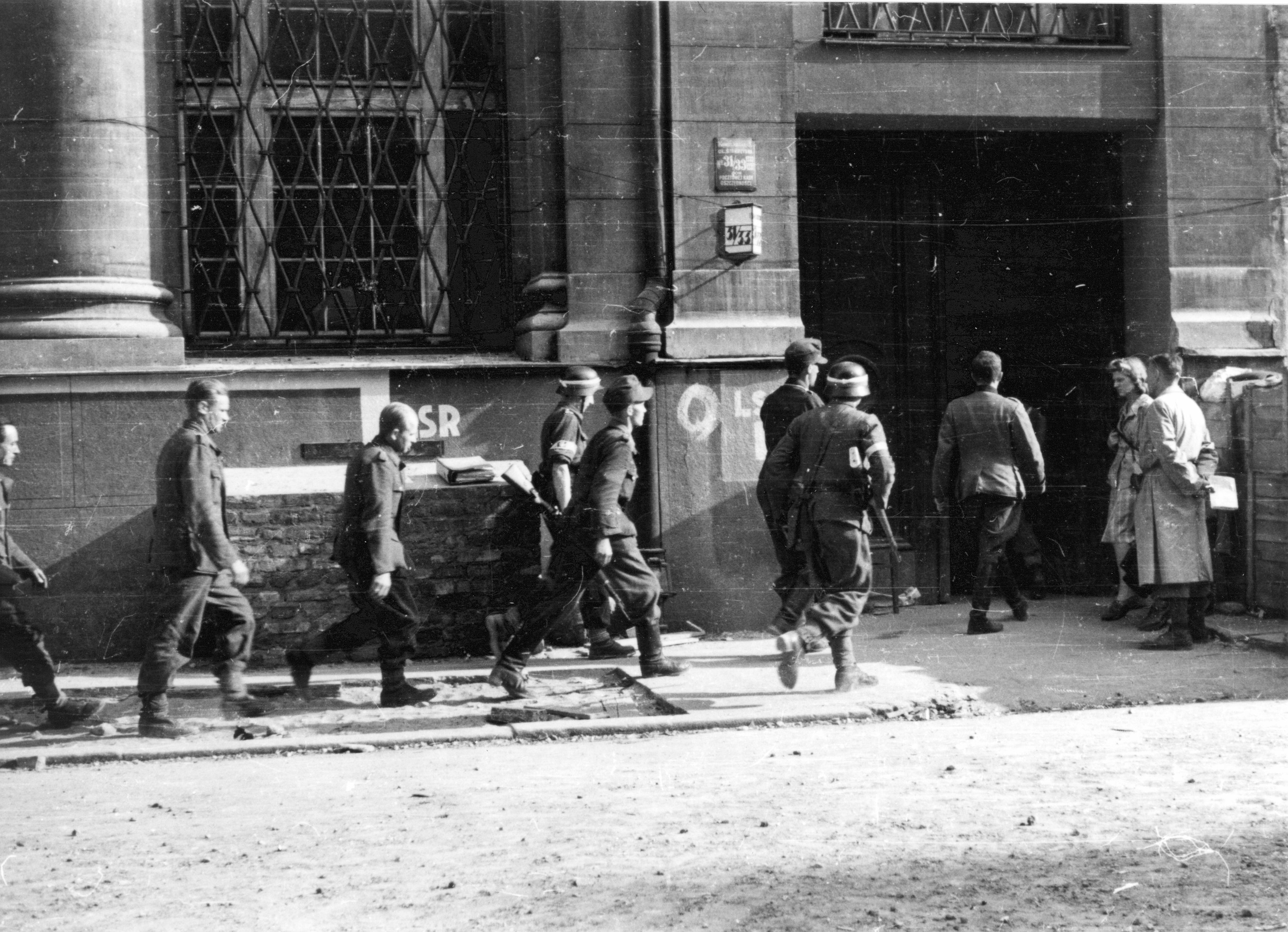 Warsaw Uprising: First German POW’s beeing taken from Main Post Office building to the PKO building on Świętokrzyska Street.